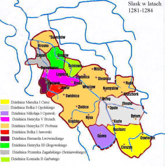 Political map of Silesia 1281/2–1284